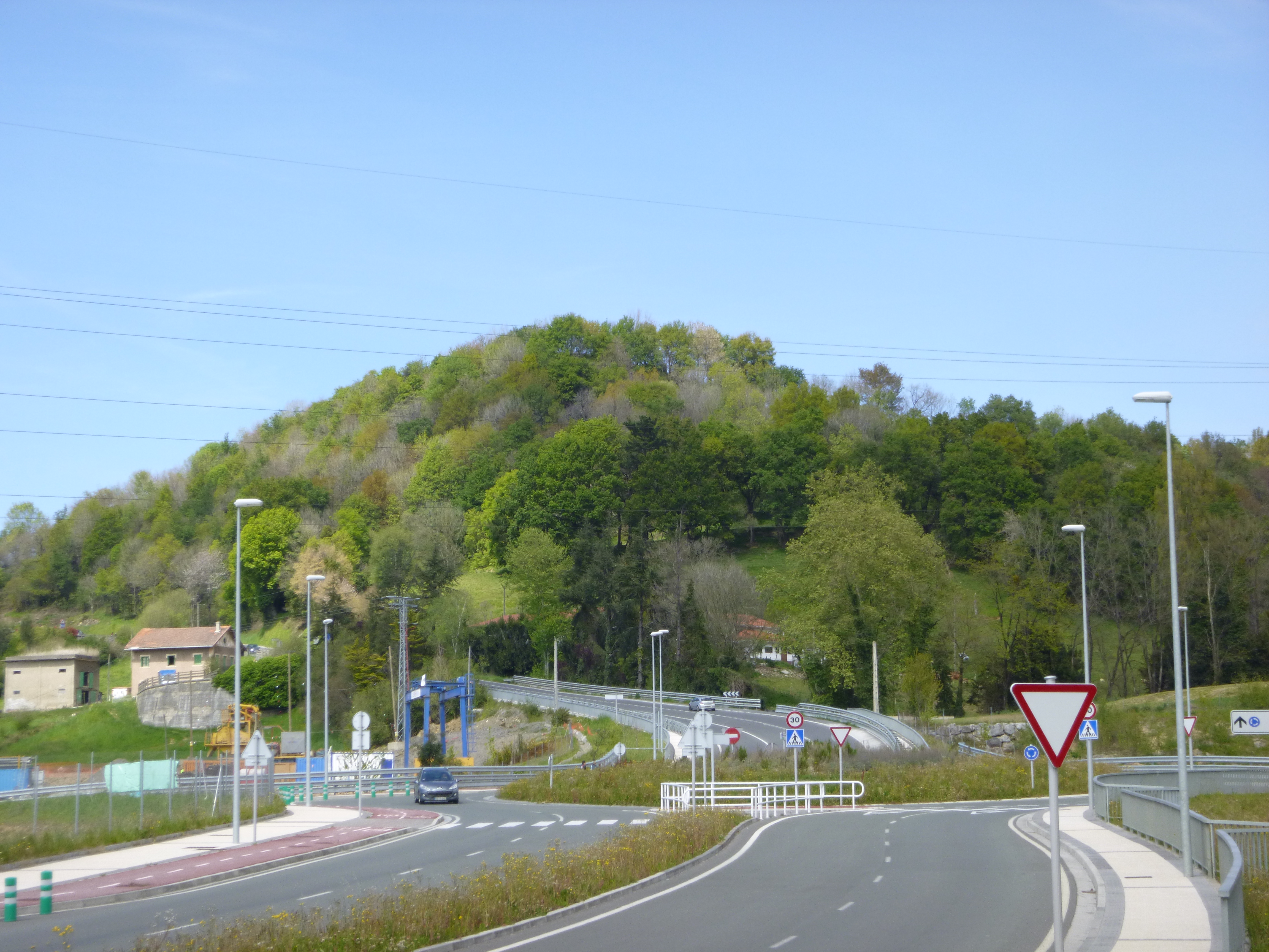 Oriamendi